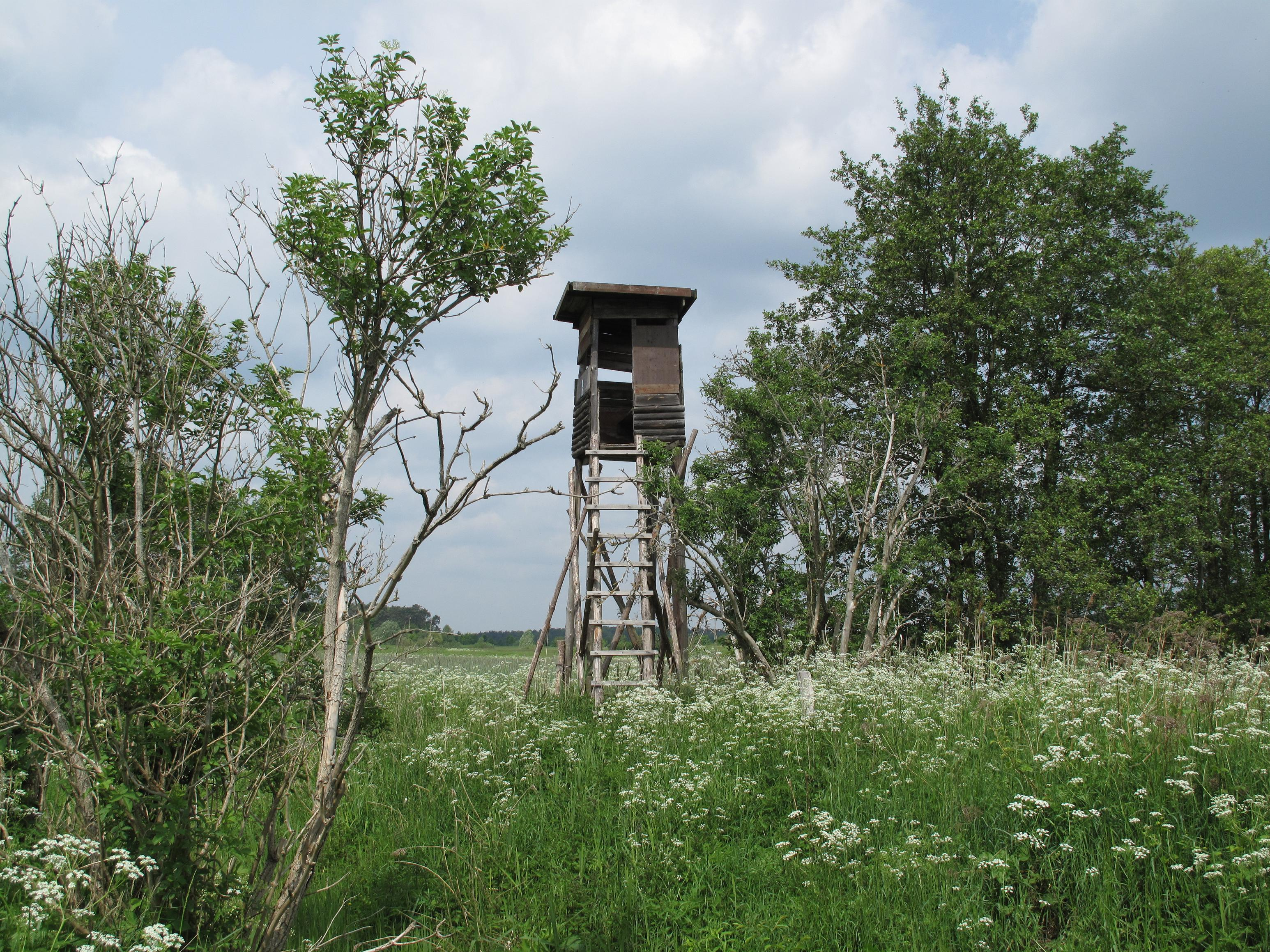 Wildenbruch, landscape over the northern bank of the Großer Seddiner See, a glacial lake in the nature park Nuthe-Nieplitz in Germany, Brandenburg, district Potsdam-Mittelmark. The lake covers 2,18 km² and is situated in the municipalities Seddiner See and Michendorf.